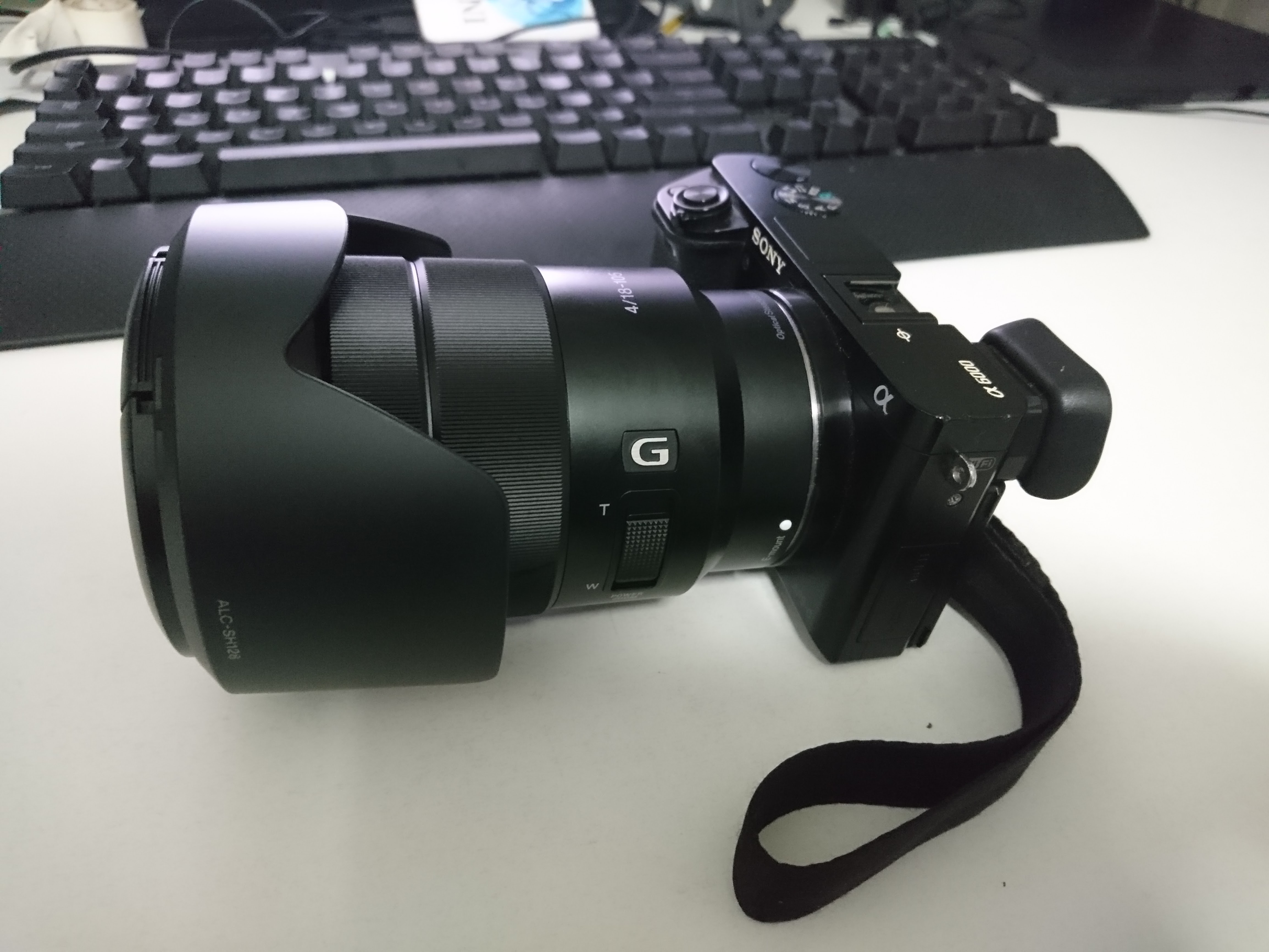 New multipurpose lens from Sony.